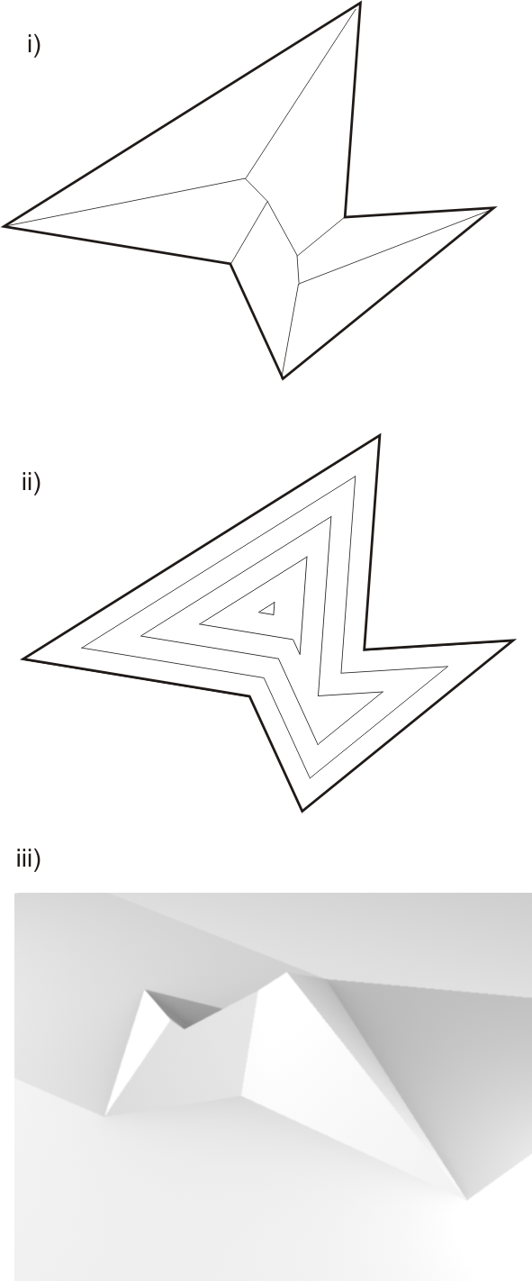 simple example of a straight skeleton